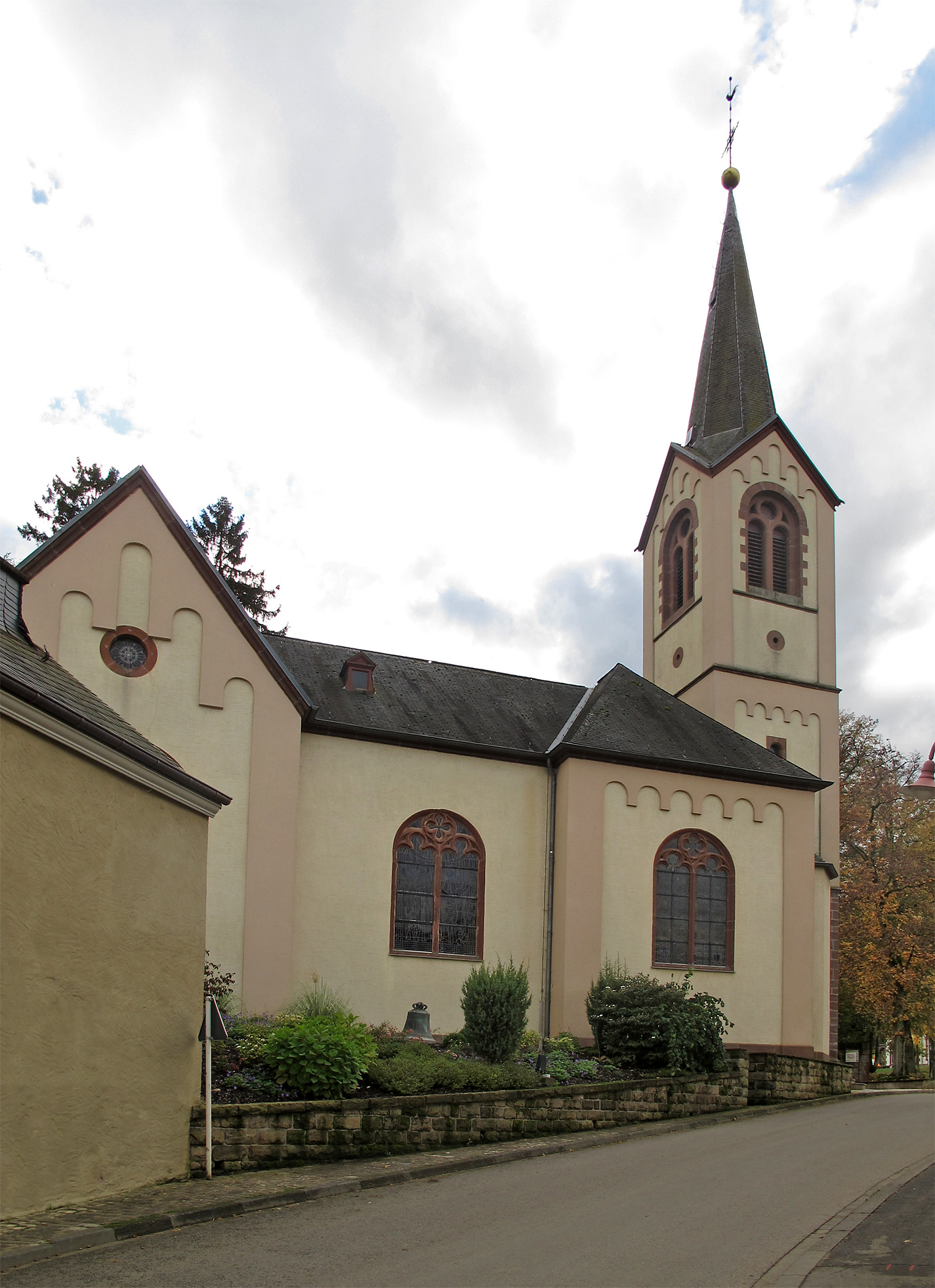 Church of Rosport, Luxembourg